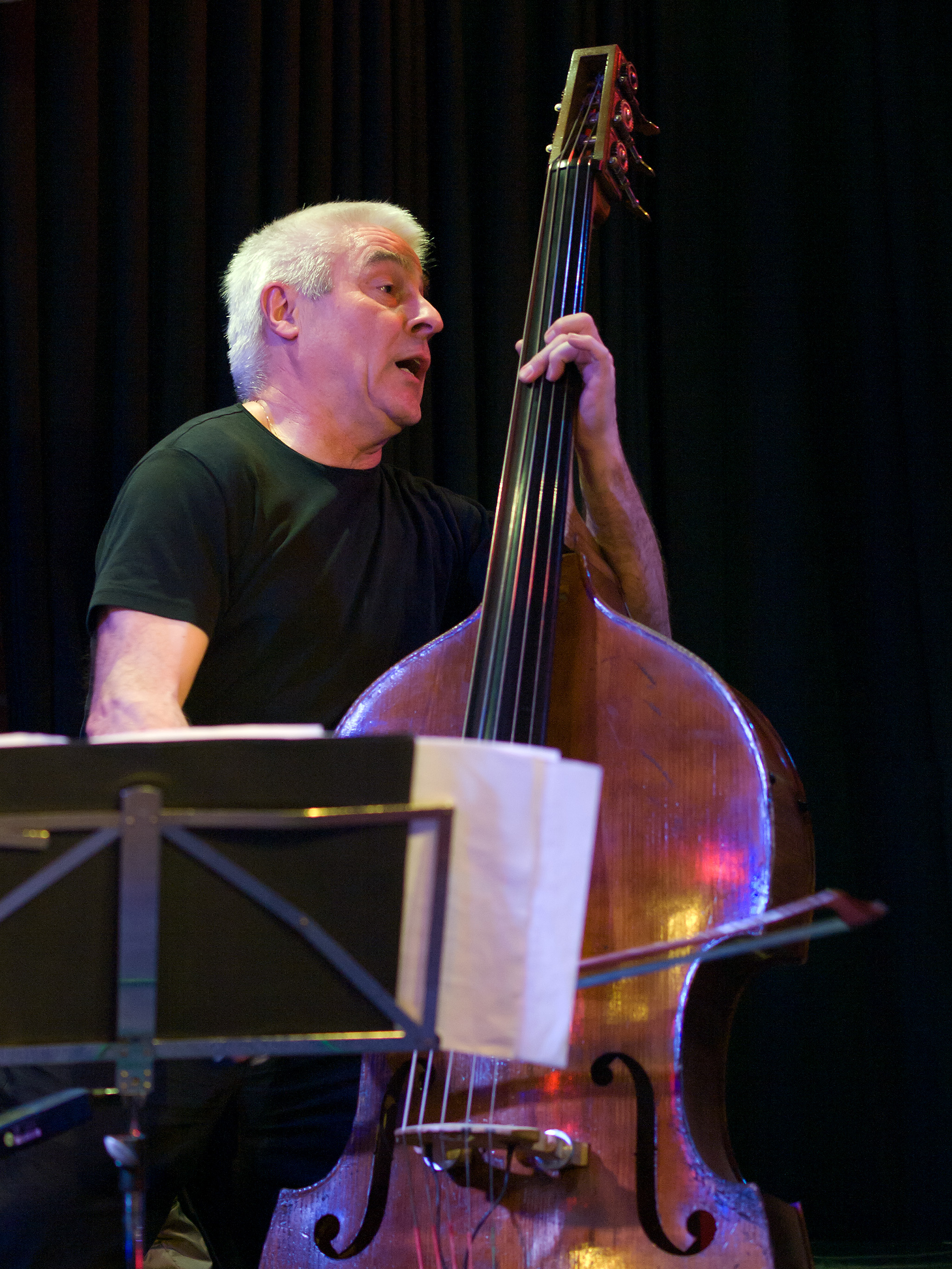 Barry Guy, Jazz bassist; Picture taken in Jazz Club Unterfahrt, Munich/Bavaria